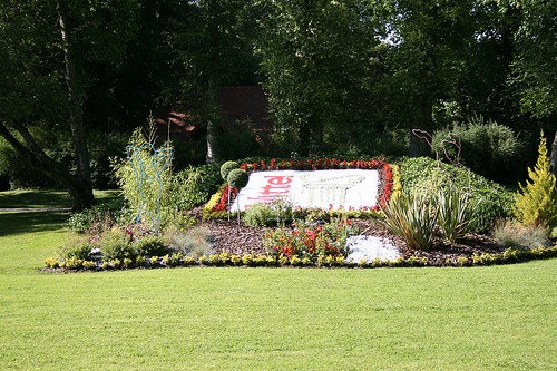 Vittel